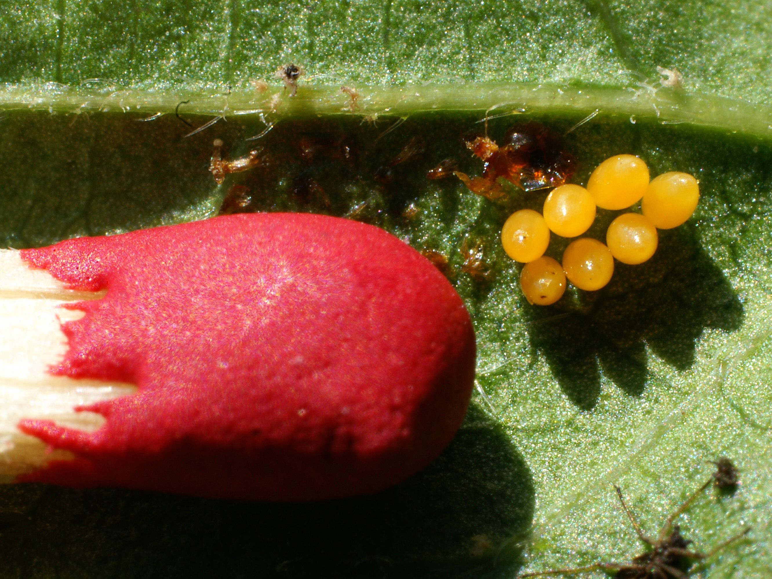 Eggs from Coccinellidae